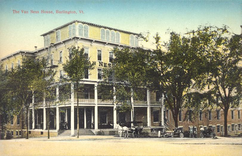 The Van Ness House, Burlington, Vermont; from a 1910 postcard published by C. H. Bessey. Named in honor of Gov. Cornelius P. Van Ness, the hotel opened on October 25, 1870. It was enlarged twice by Urban A. Woodbury, an American Civil War veteran and 45th governor of Vermont, to accommodate 400 guests, but burned in 1951.